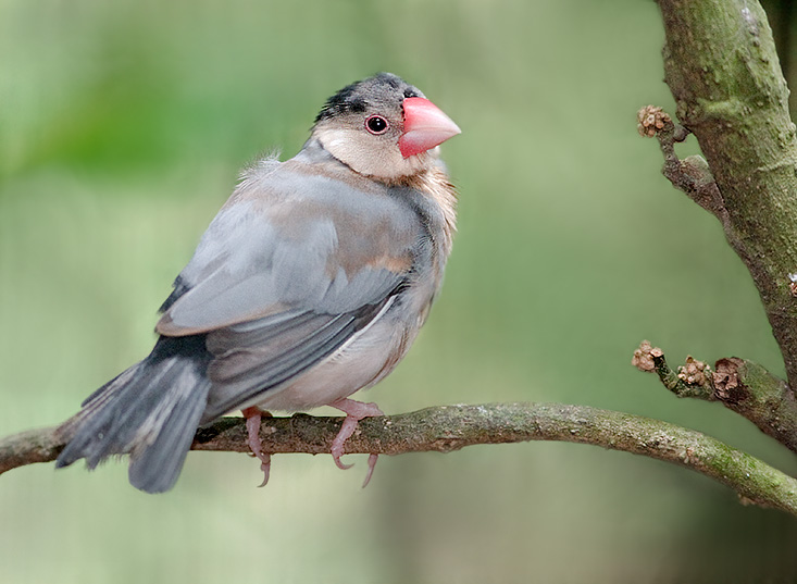 Java Sparrow